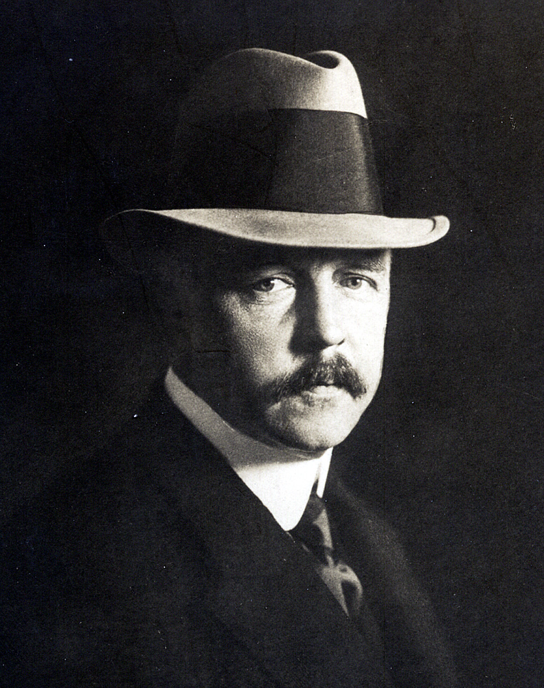 Heinrich XXVII., Principality of Reuss Junior Line